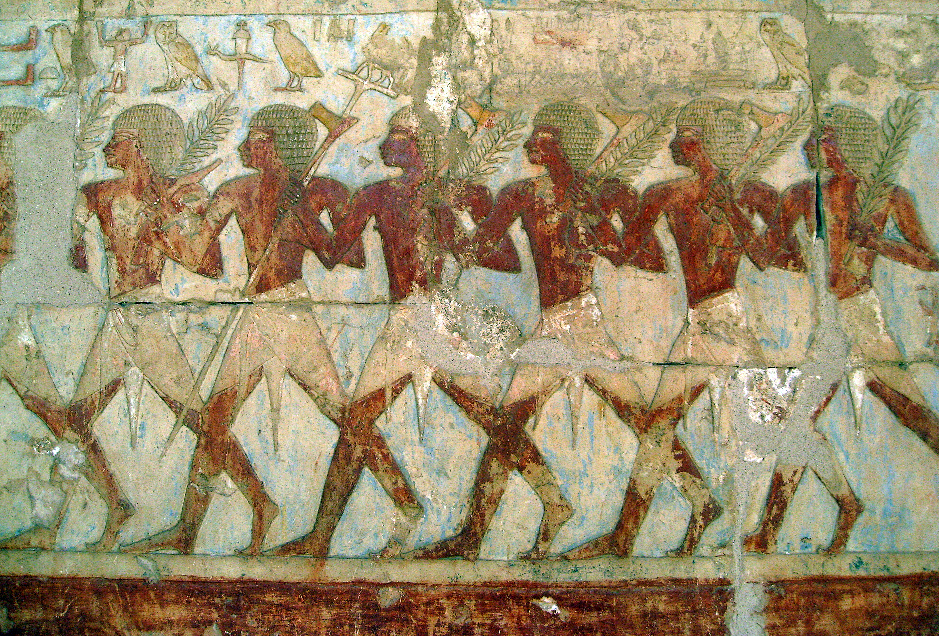 This is a fine relief of members of Hatshepsut's trading expedition to the mysterious 'Land of Punt' from this pharaoh's elegant mortuary temple at Deir El-Bahri. In this scene, Egyptian soldiers bear tree branches and axes.